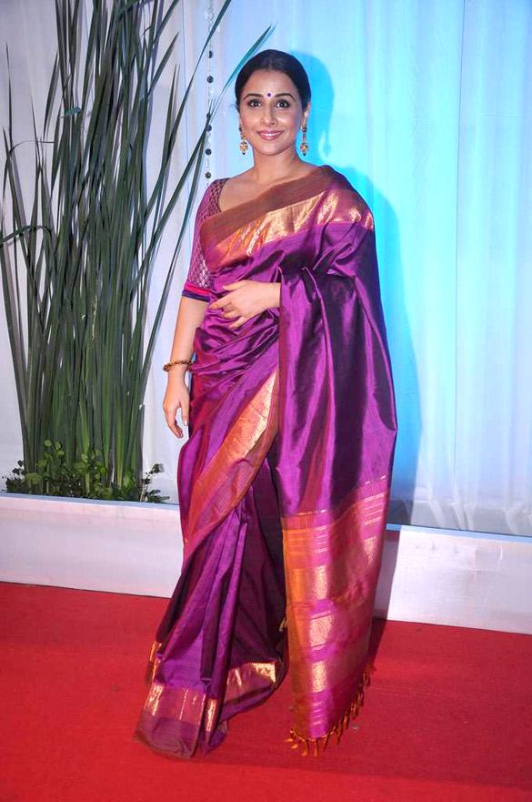 Vidya Balan at Esha Deol's wedding reception